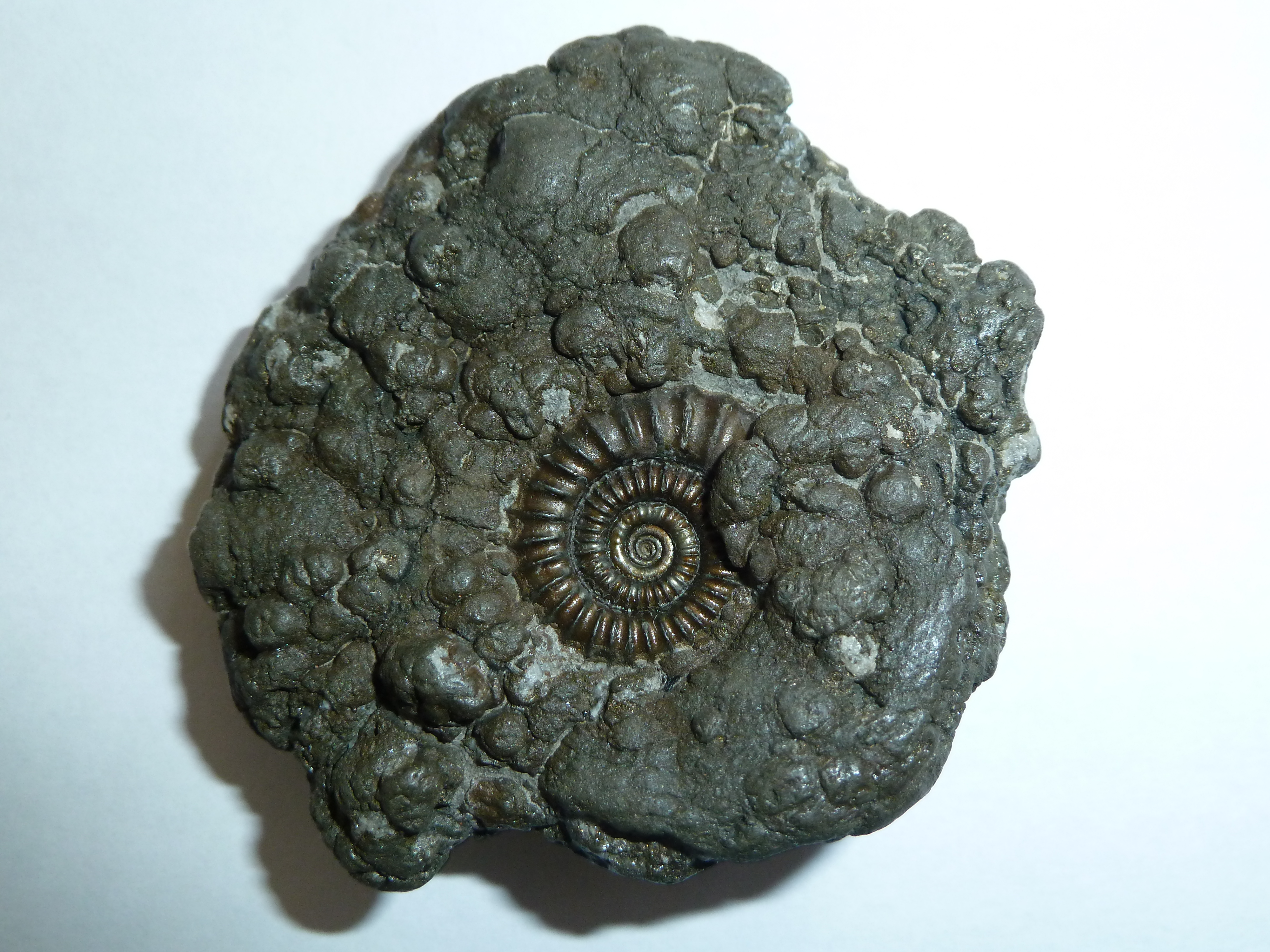 This specimen was collected from Charmouth, Dorset, from Stonebarrow. It is preserved in pyrite.